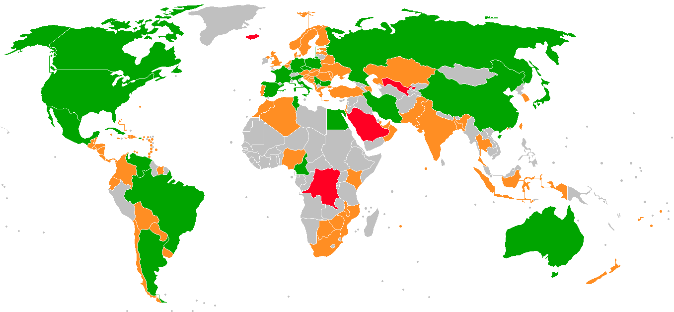 2010 FIVB Men's World Championship qualification